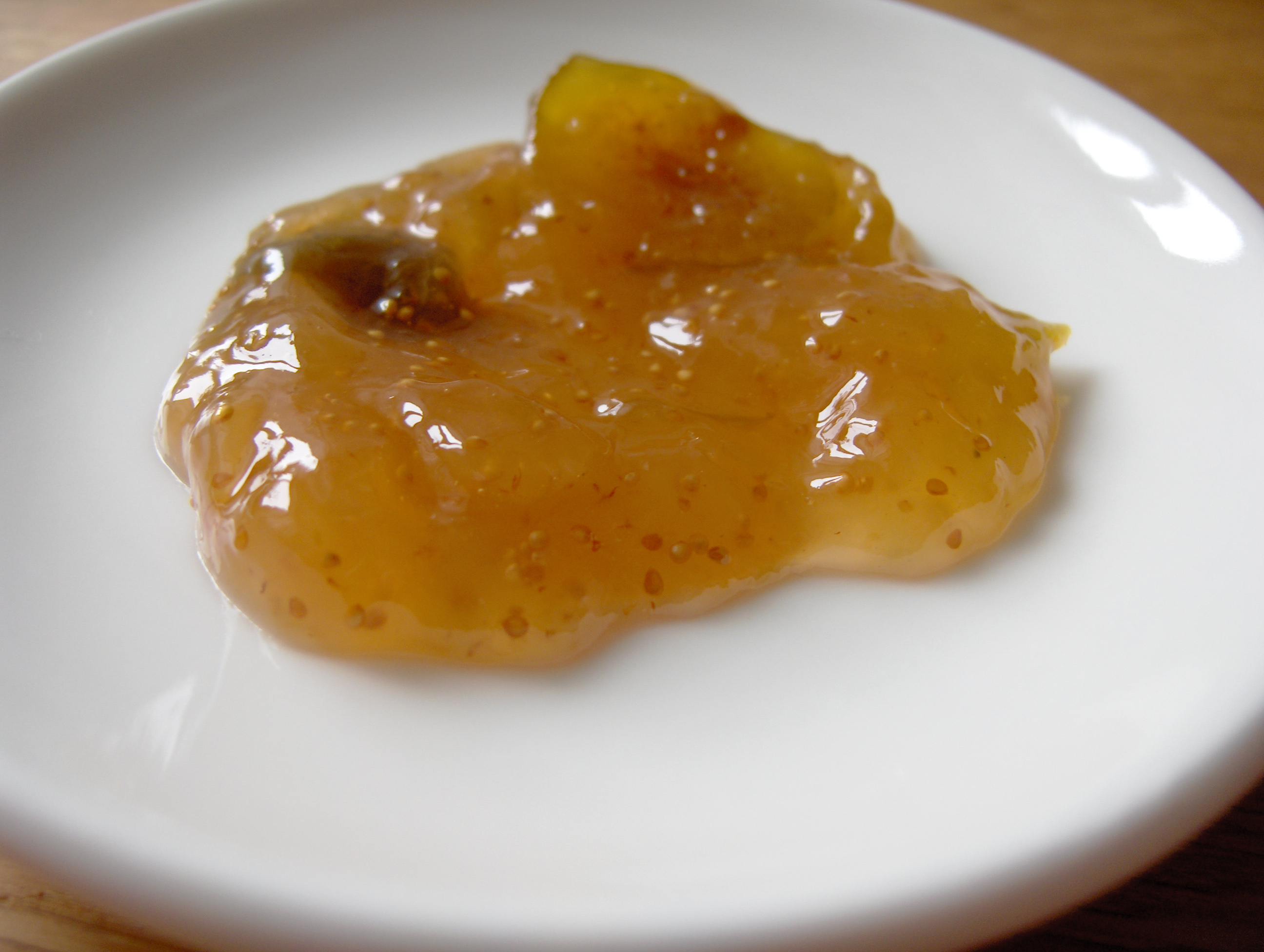 Fig jam.